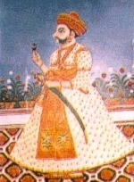 Mohammad Bahadur Khanji I, Nawab of Junagadh, reign 1735 - 1758